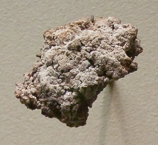 Cotunnite on display at the New York Museum of Natural History